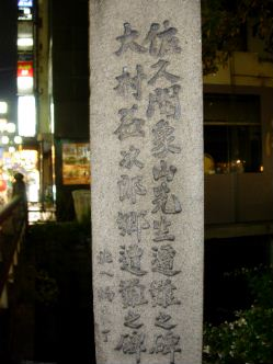 The Signpost to the place of Sakuma Shōzan and Ōmura Masujirō accidents in Sanjō, Kyōto